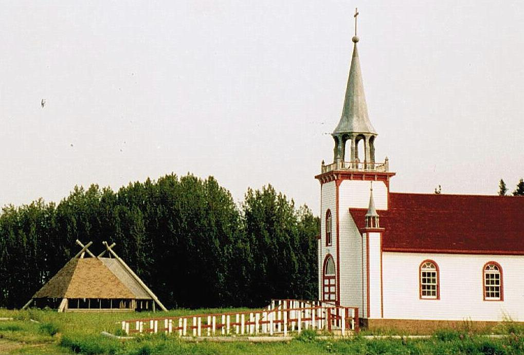 The Hay River Mission National Historic Site of Canada on the Hay River Reserve, Northwest Territories, Canada. Pictured is Ste. Anne’s Roman Catholic Church.